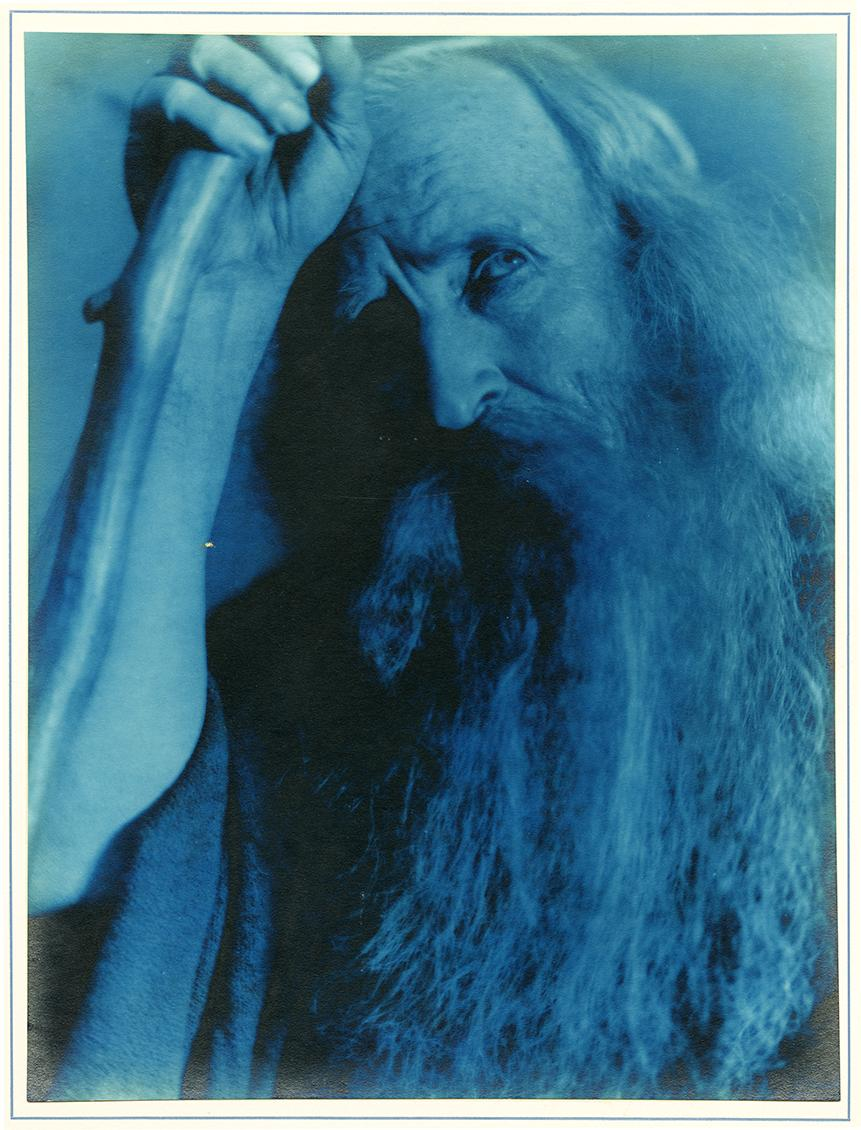 Title: Scene from Cecil B. DeMille's The Ten Commandments Repository: California Historical Society Digital object ID: PC-RM-Curtis_082 Call Number: PC-RM-Curtis Collection: Photographs of the filming of Cecil B. DeMille's The Ten Commandments Photographer: Curtis, Edward S. Date: 1923 Physical description: Photographic print on printed mounts: silver gelatin, blue-tinted; 38 x 50 cm. General notes: Mounts imprinted: The Edward S. Curtis Studio 668 South Rampart, Los Angeles. Contains images of actors playing scenes in, and exterior and interior sets from, Cecil B. DeMille's The Ten Commandments. Most photos show Theodore Roberts as Moses, and several show Charles de Rochefort (Charles de Roche) as Ramses. Includes group scenes in the dunes, near or in the ocean, and on interior sets. Filmed at Guadalupe-Nipomo Dunes in Santa Barbara County, California. Preferred citation: Scene from Cecil B. DeMille's The Ten Commandments, Photographs of the filming of Cecil B. DeMille's The Ten Commandments, PC-RM-Curtis, courtesy, California Historical Society, PC-RM-Curtis_082.